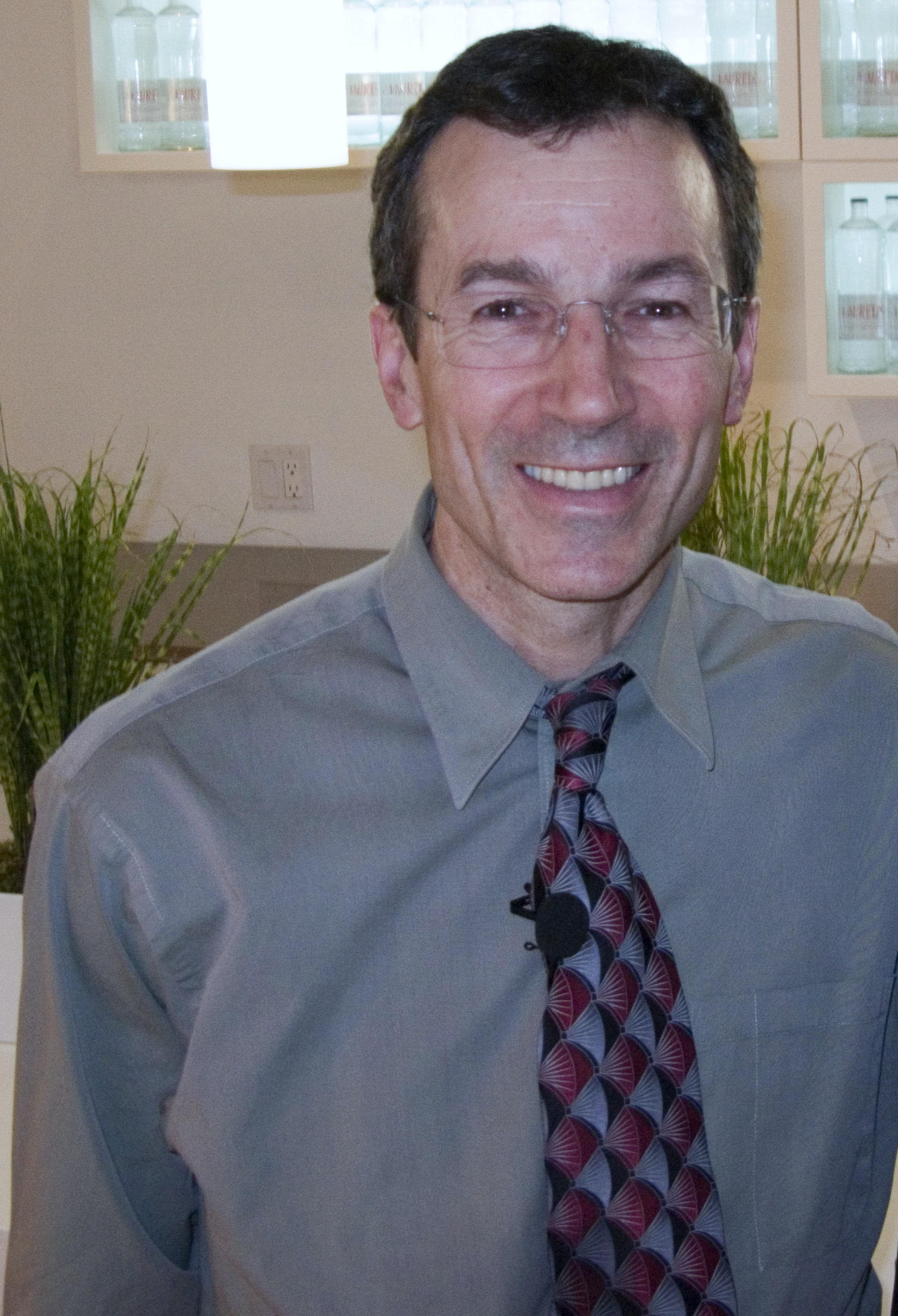 Former Vancouver, BC city councillor and mayoralty candidate Peter Ladner shortly before a media interview on UMTV with Sharad Khare in March 2008. Peter Ladner is also a businessman and the founder of the Business in Vancouver newspaper.